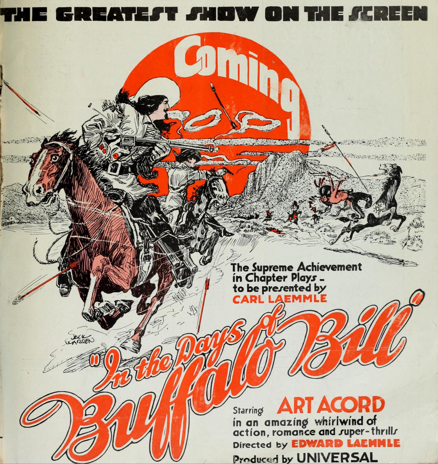 1922 magazine advertisement for the silent film In the Days of Buffalo Bill